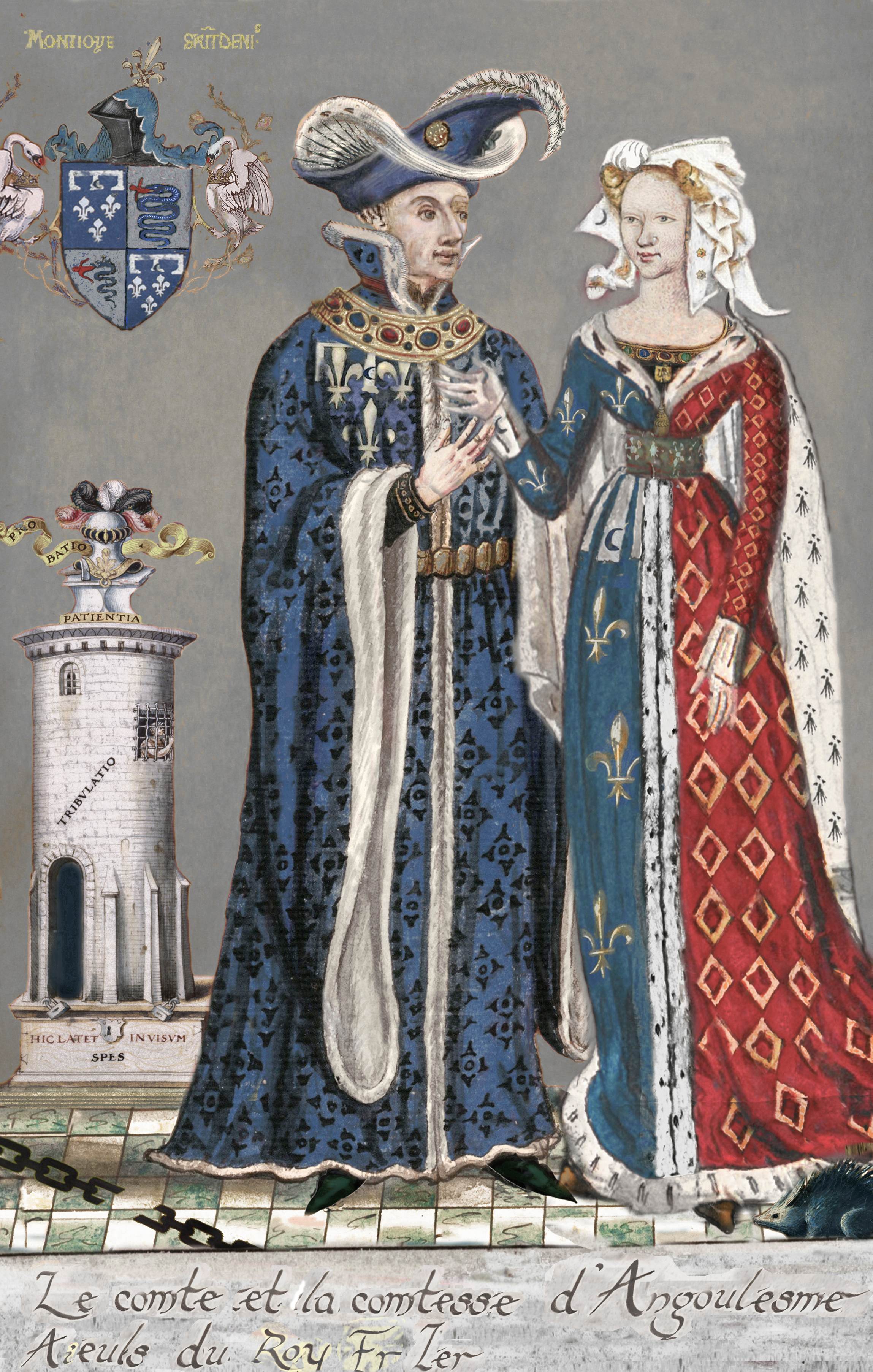 TLG. d'aprrès Gaignières.